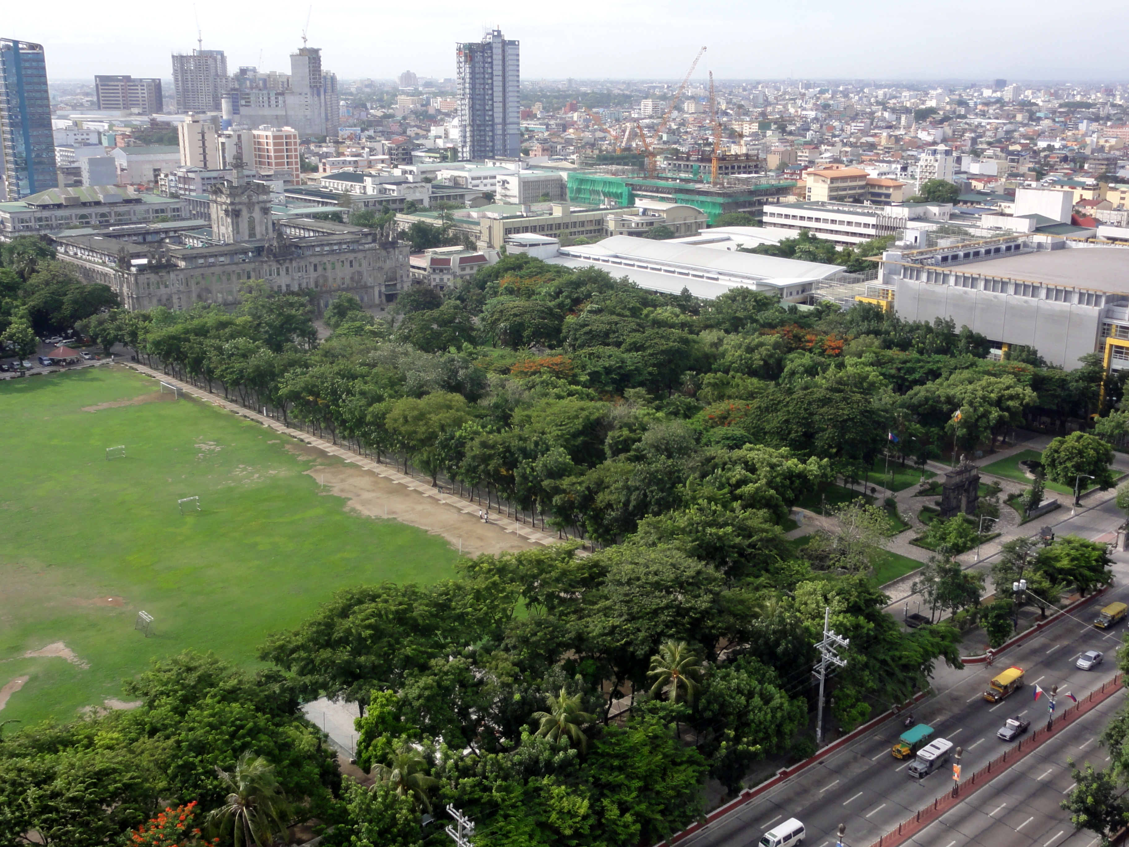 Aerial view of the 21.5-hectare campus of the Pontifical and Royal University of Santo Tomas (UST) along España Boulevard, Sampaloc, Manila as of June 2015. The campus was built in 1927. The UST campus was declared a National Historical Landmark by the Philippine Government in 2011.